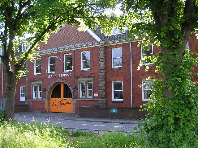 Lea & Perrins factory, Worcester. The home of "Worcestershire Sauce"